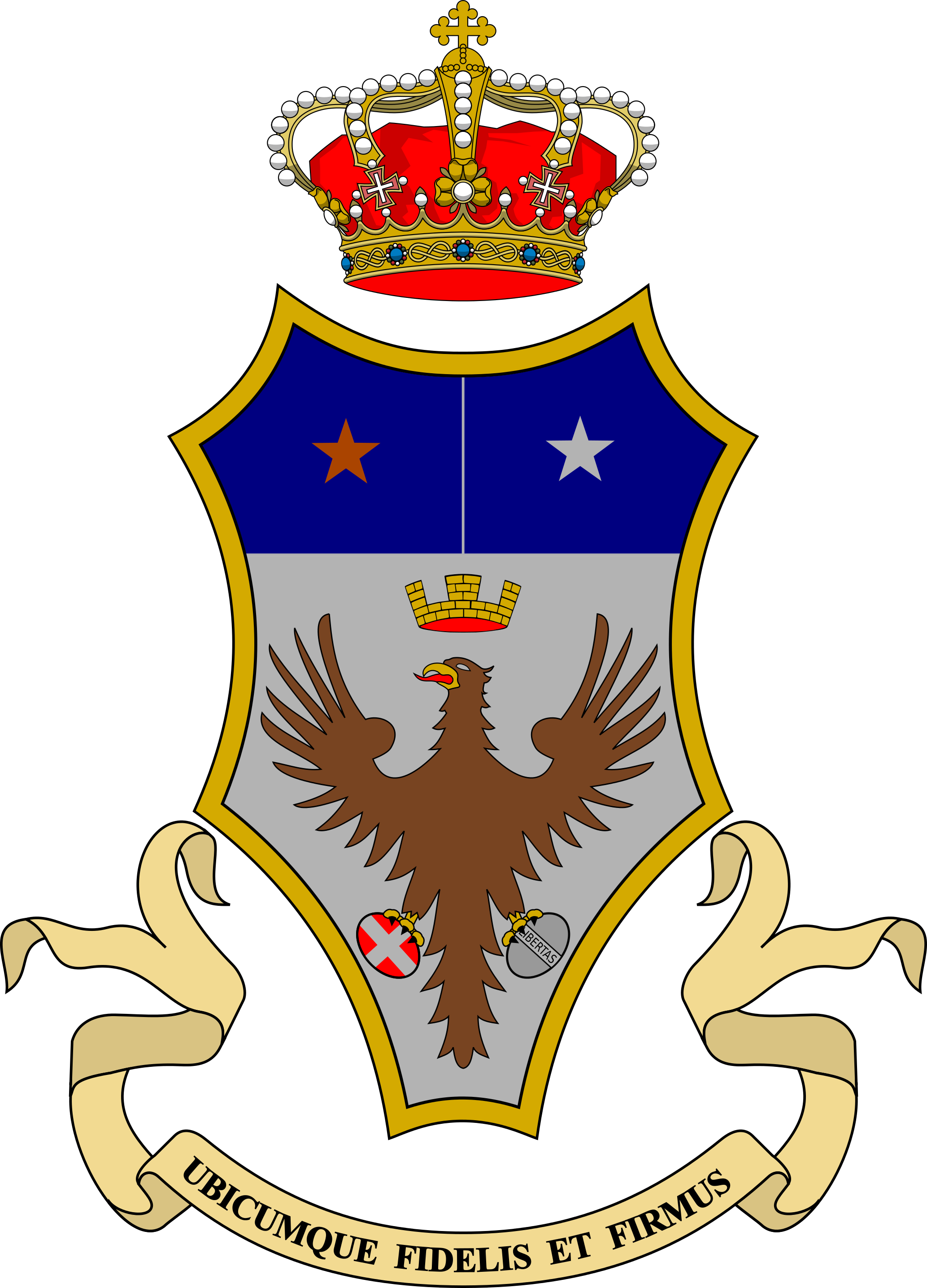 Coat of Arms of the 43rd Infantry Regiment "Forlì", Royal Italian Army, 1939 - Royal Crown by user Flanker, released to public domain (see File:Crown of Savoy.svg)